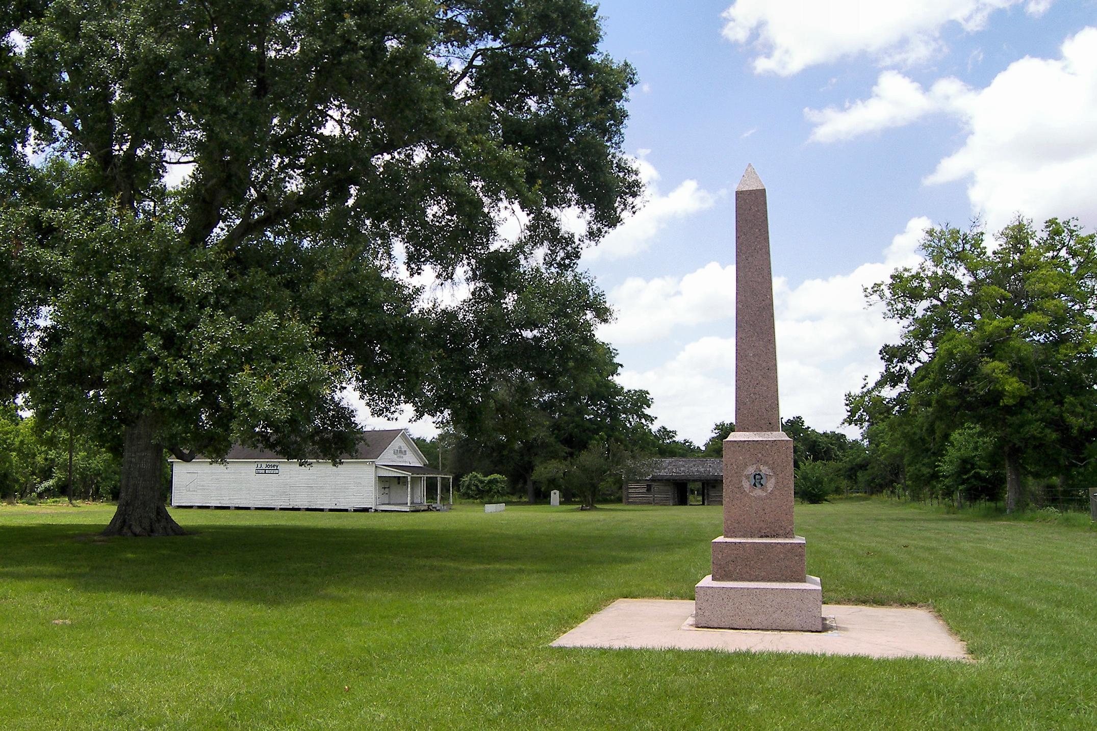 San Felipe de Austin State Historic Site, Austin County, Texas, United States